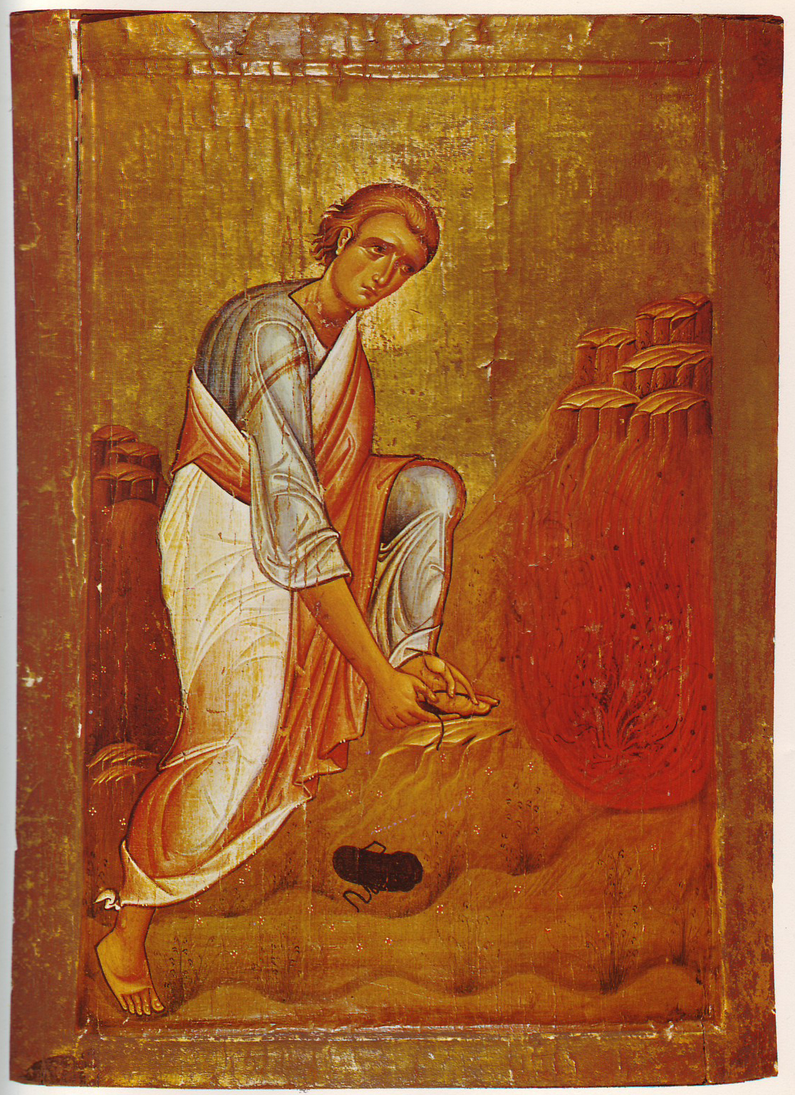 Moses and the burning bush. Loca sancta icon from the 12th (13th?) century. 92 x 64 cm